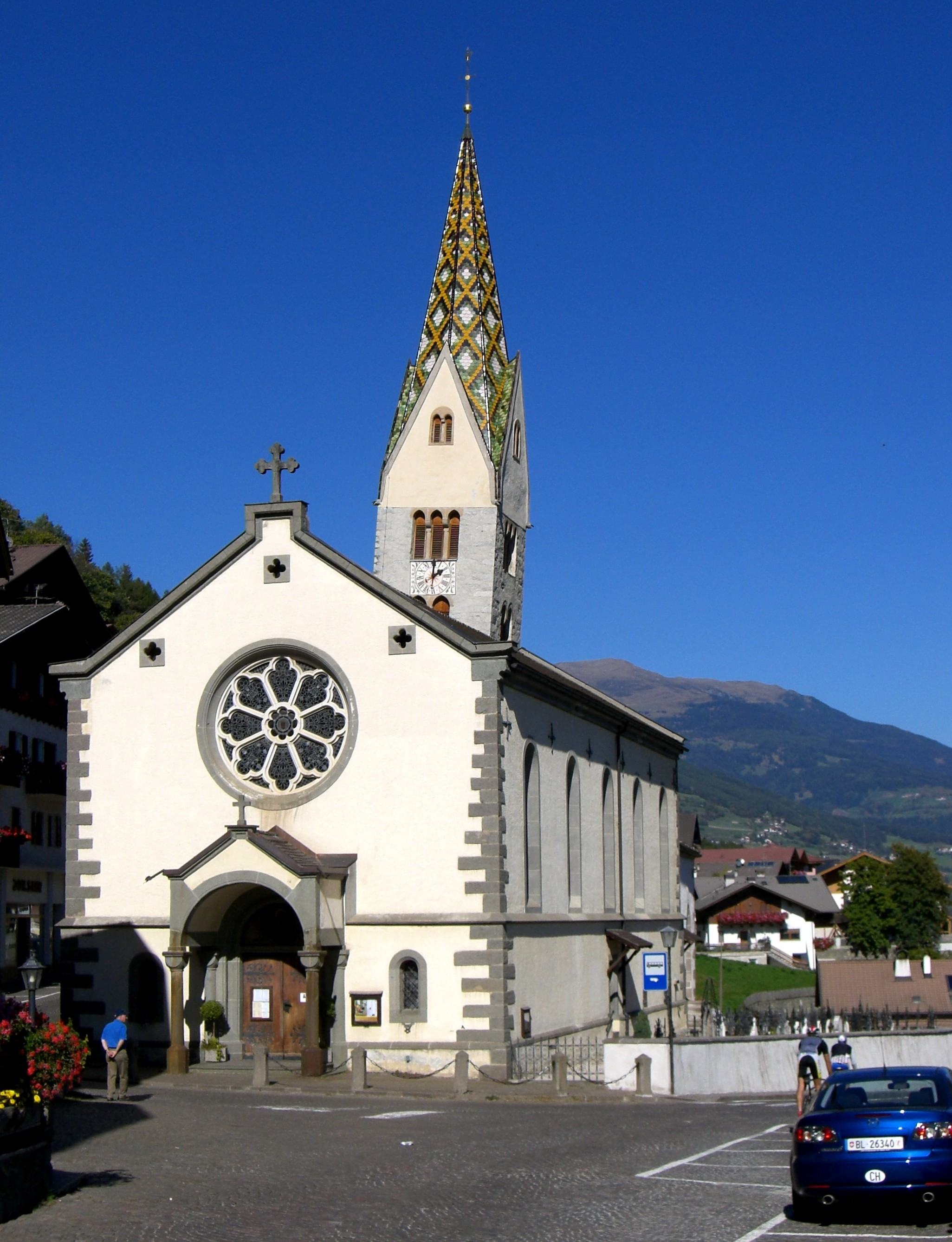 Barbian, St James Parish Church from south.